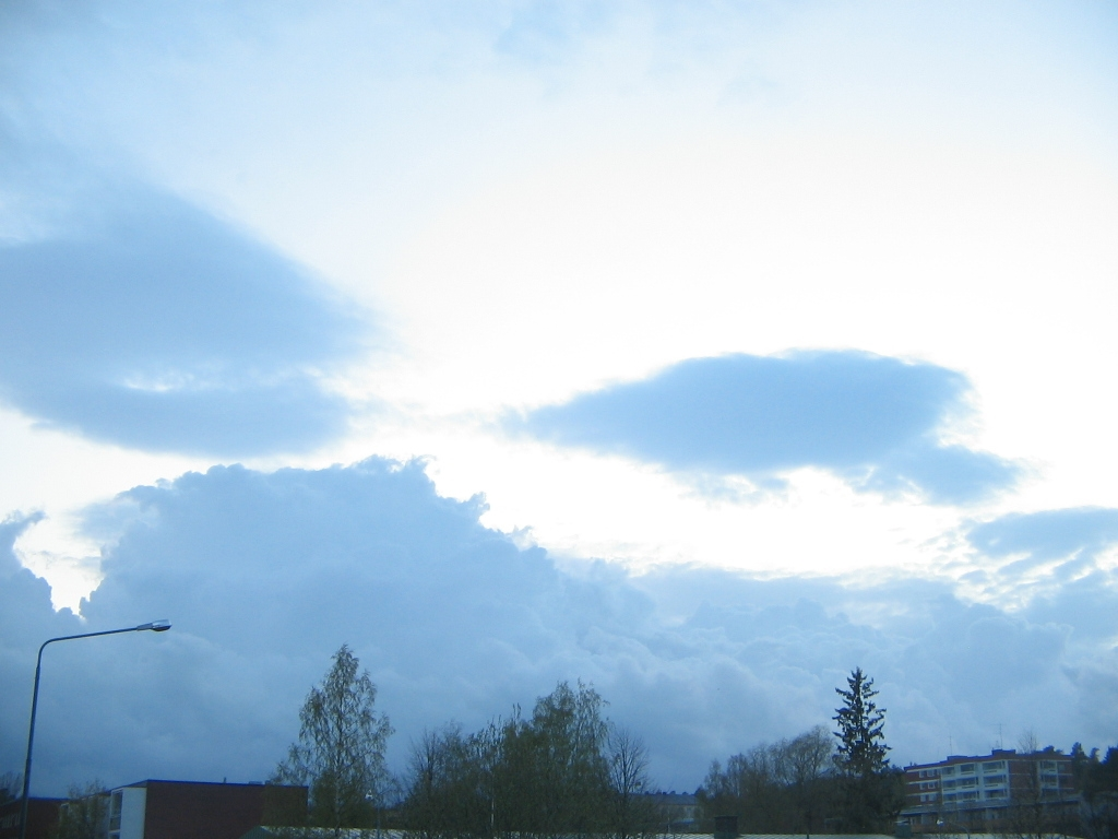 Cold front is coming towards on night, on spring in Finland. Thete is no anvil cloud on this front.